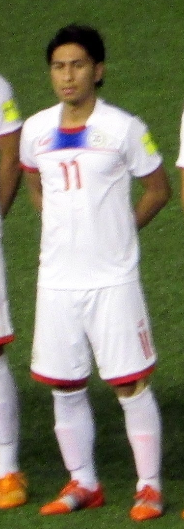 Daisuke Sato with the Philippine national team. Philippines v. Maldives friendly. September 3, 2015.